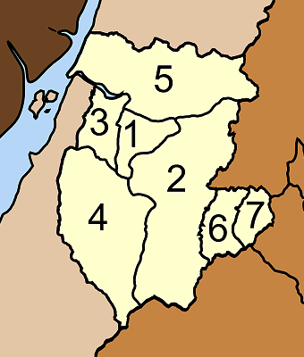 Map of La-un district, Ranong province, with the communes (tambon) numbered La-un Tai (ละอุ่นใต้) La-un Nuea (ละอุ่นเหนือ) Bang Phra Tai (บางพระใต้) Bang Phra Nuea (บางพระเหนือ) Bang Kaeo (บางแก้ว) Nai Wong Nuea (ในวงเหนือ) Nai Wong Tai (ในวงใต้)